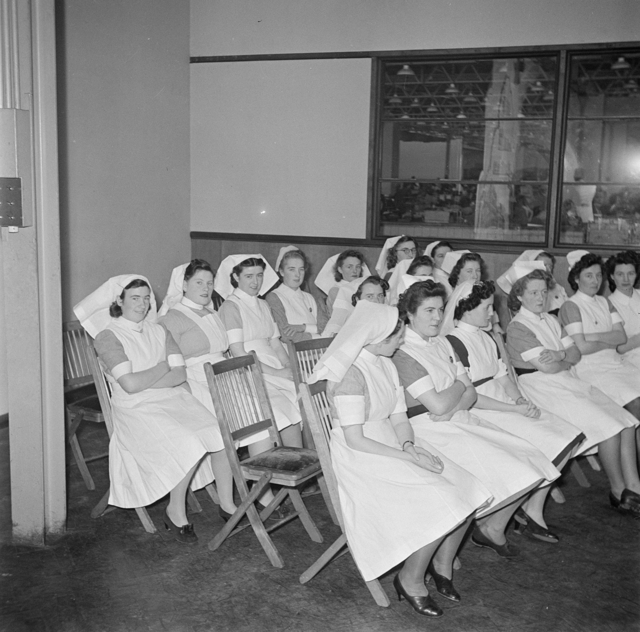 A group of nurses who perform the contractions of the Irish Hospitals Sweepstake